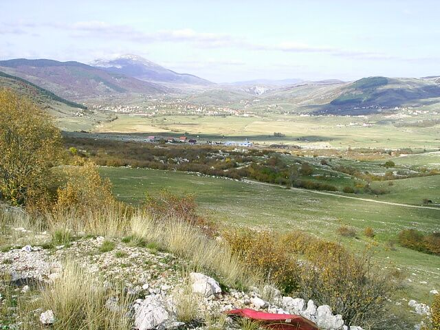 Kupres field, "Kupreško polje", Bosnia and Herzegovina